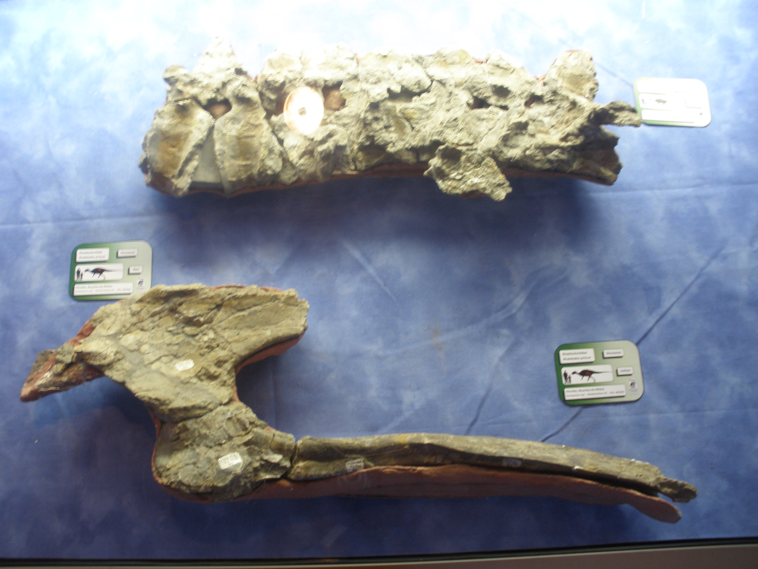 fossil of Rhabdodon